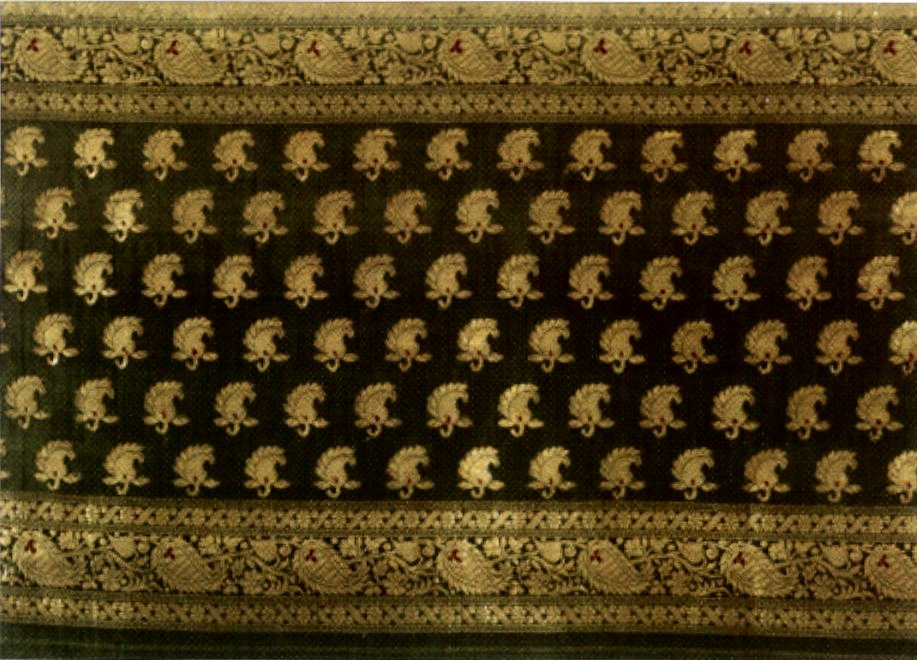 'Sari' from Varanasi (north-central India), silk and gold-wrapped silk yarn with supplementary weft brocade, early 20th century, Honolulu Academy of Arts